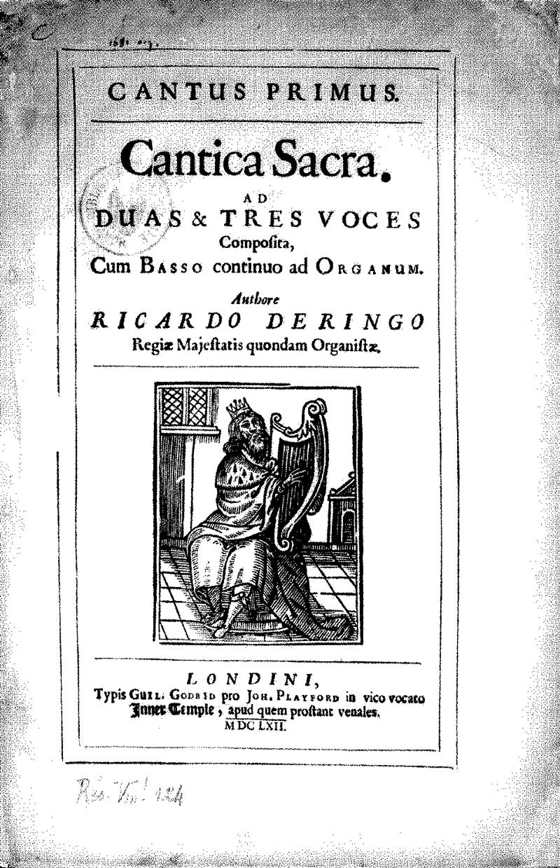 Cantica Sacra. ad duas & tres voces composita, cum basso continuo ad organum. authore Ricardo Deringo Front cover of Cantica Sacra I by Richard Dering (c. 1580–1630), published in London by John Playford in 1662.